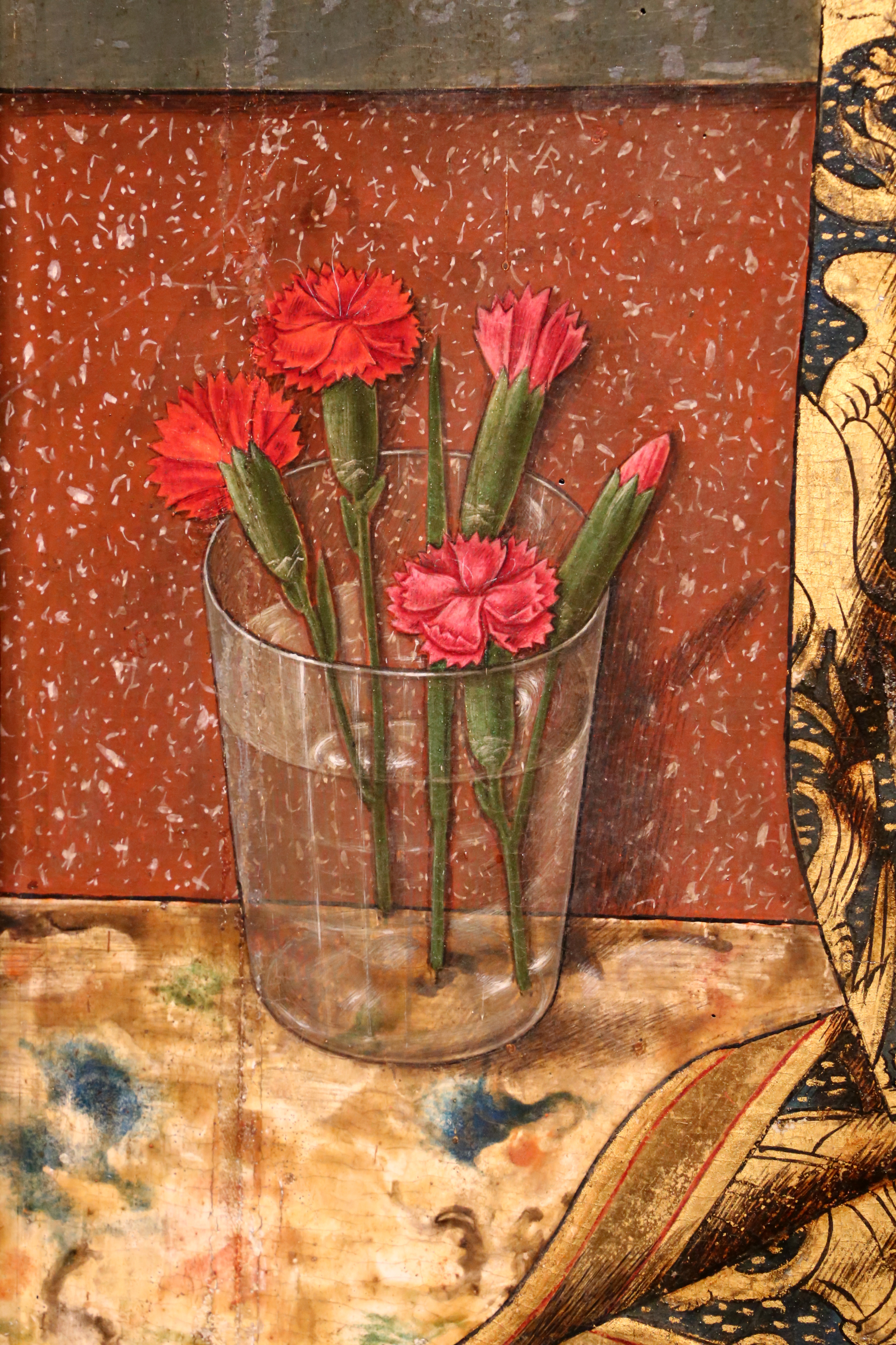 Falerone Madonna by Vittore Crivelli